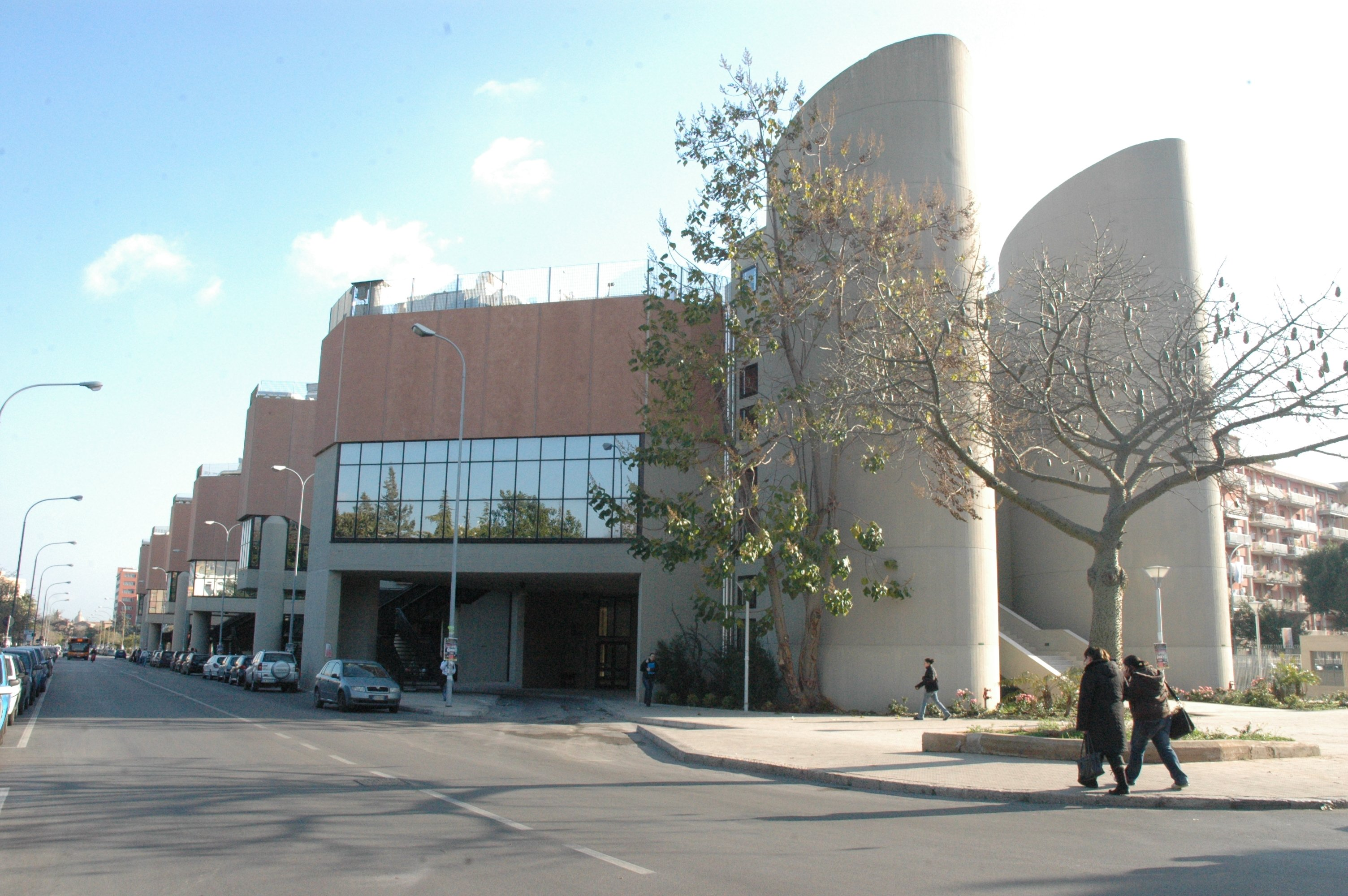 Edificio 19 dell’Università